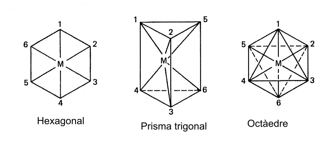 Possible geometrical structures of hexaccordinated compounds